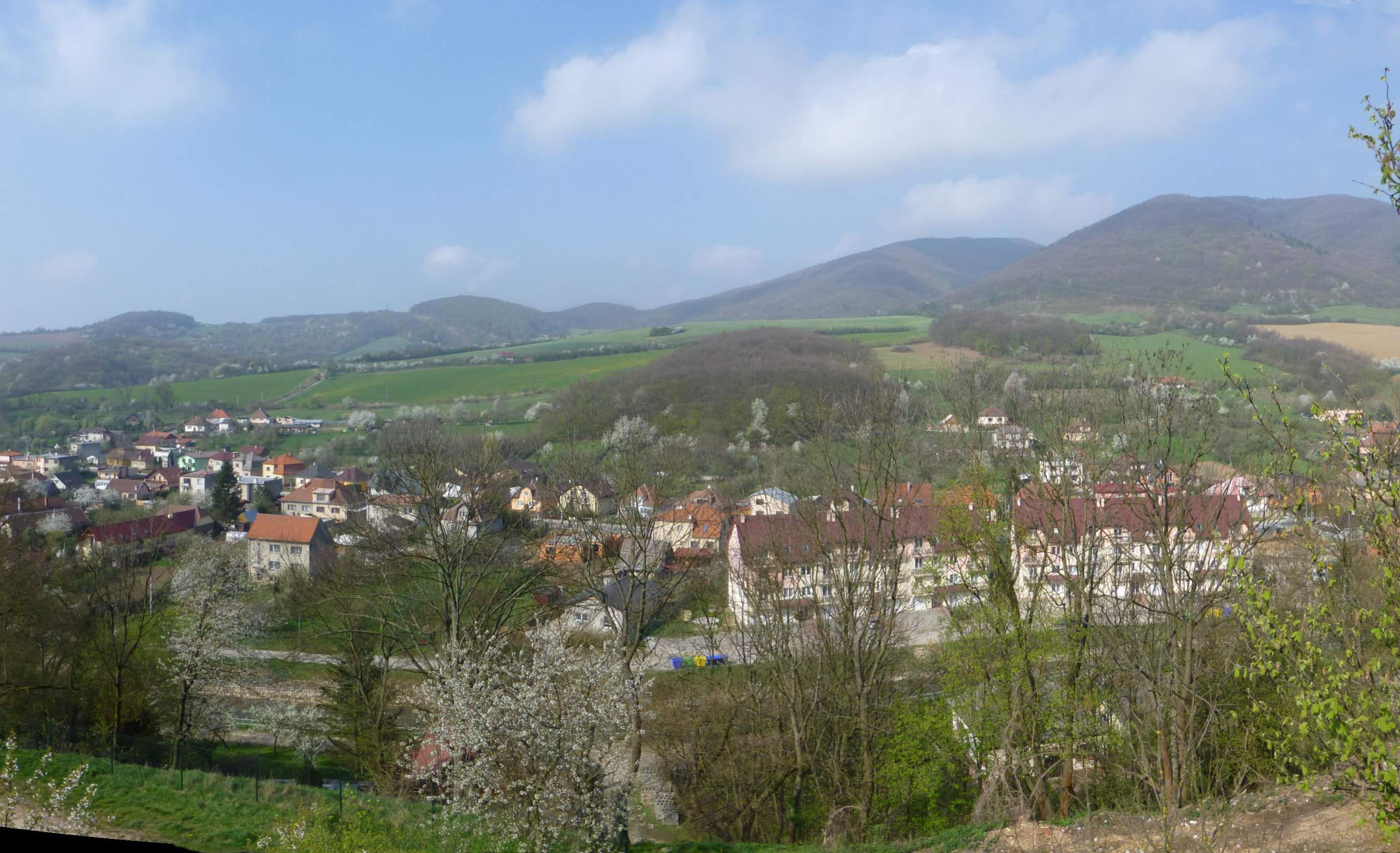 View of the Drietoma from the east, from the Drietomské bralo hill. Spring 2016.